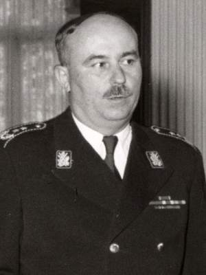 Inventarski broj: 1955 044 146